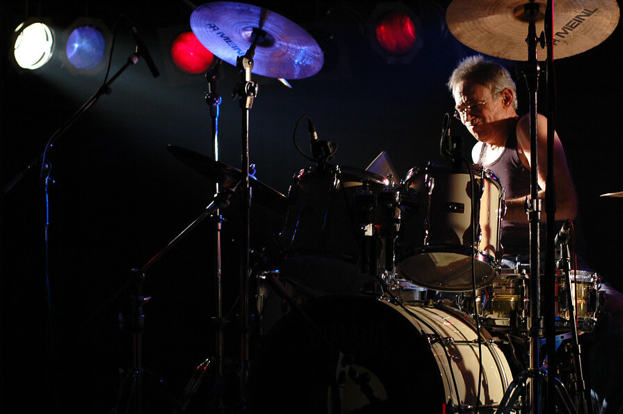 Drummer Ron Bushy from Iron Butterfly